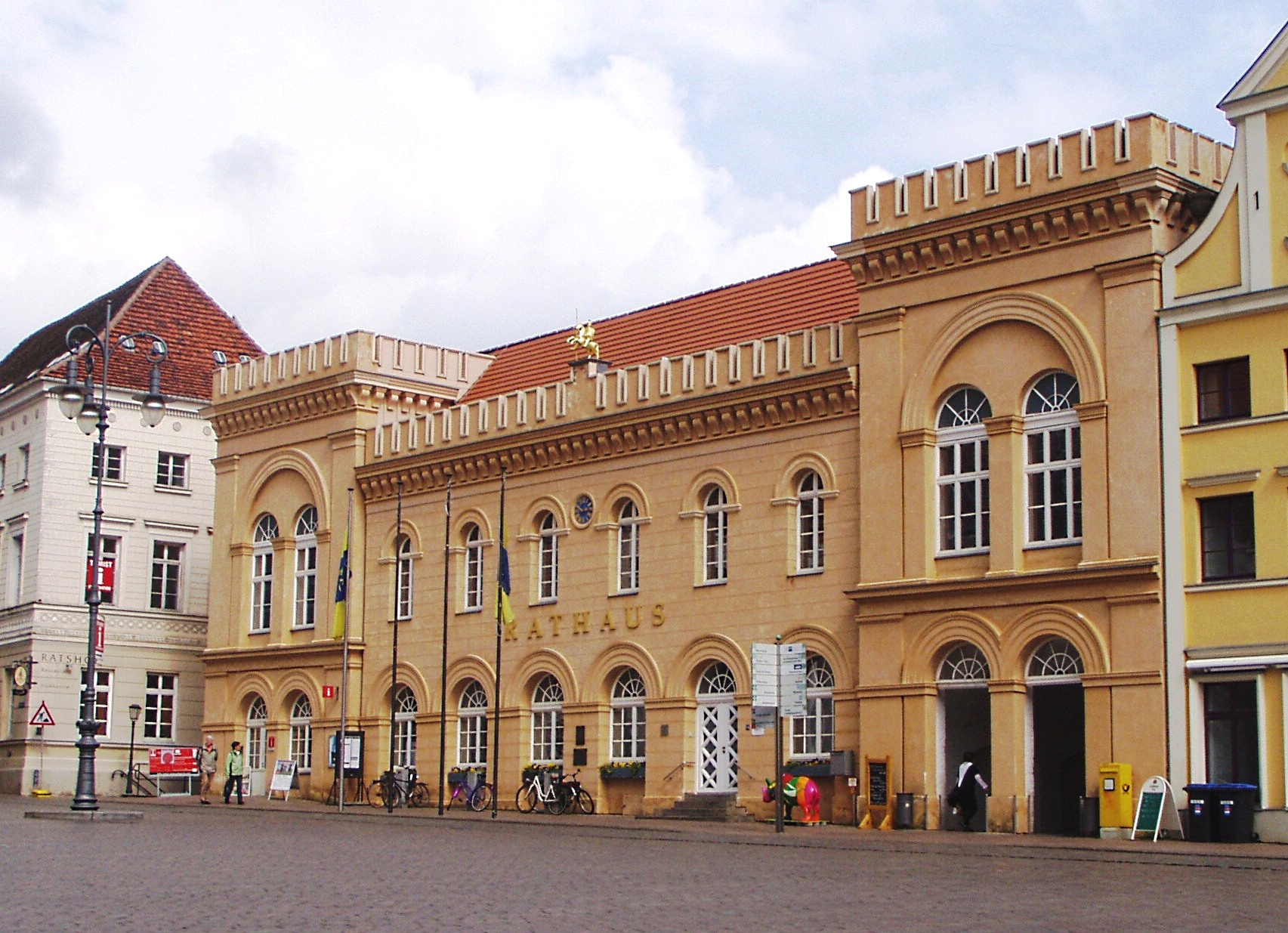 Town hall of Schwerin